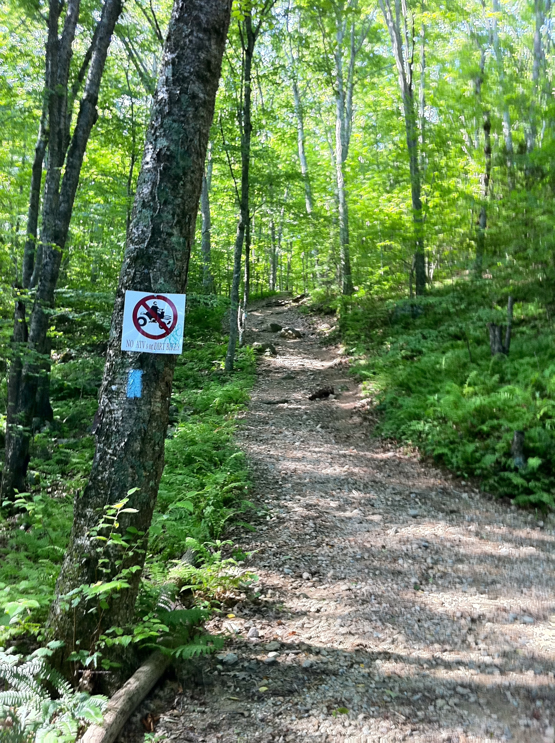 Narragansett Trail's south-east trail head on Wintechog Road